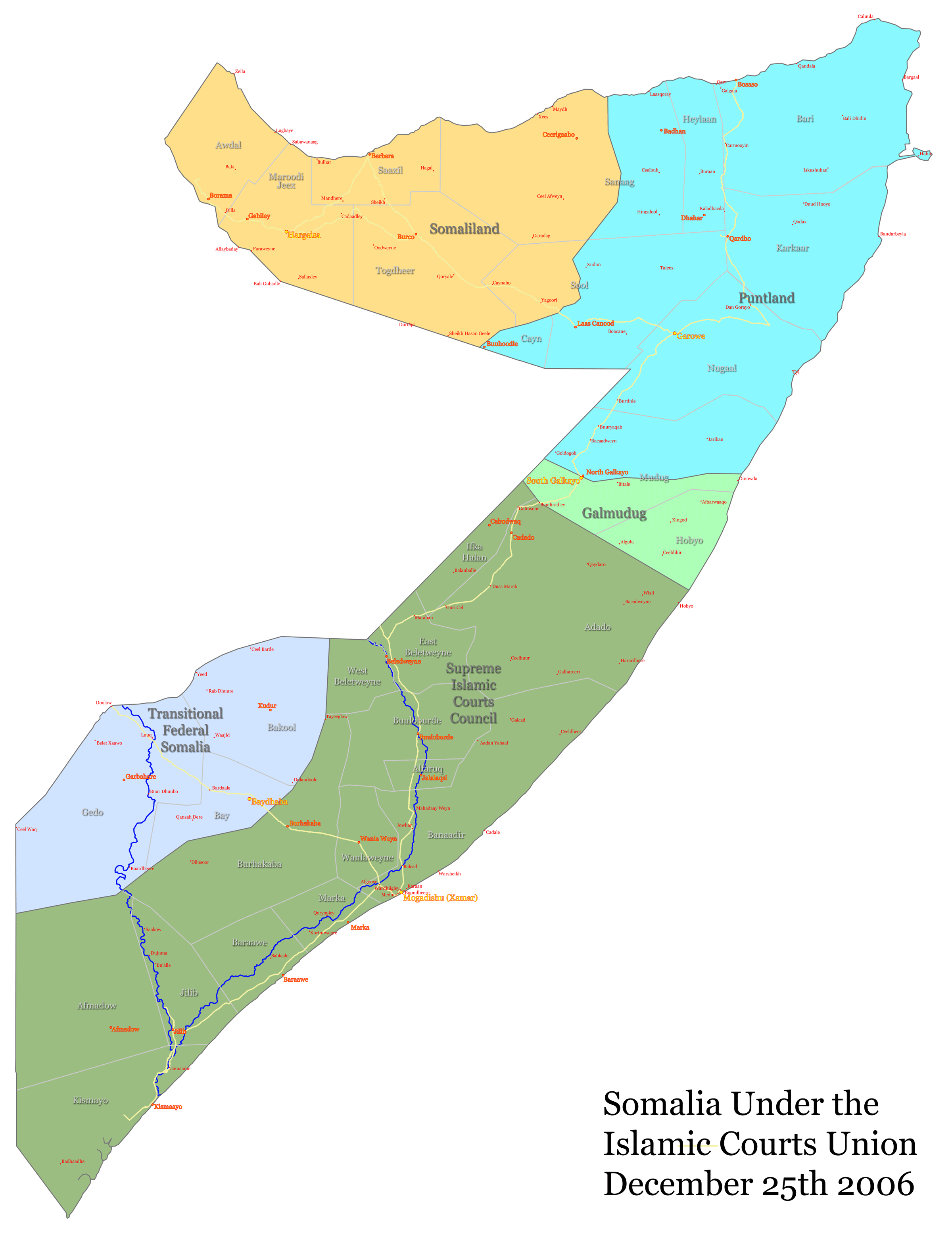 Map of SICC territory at the height of their influence